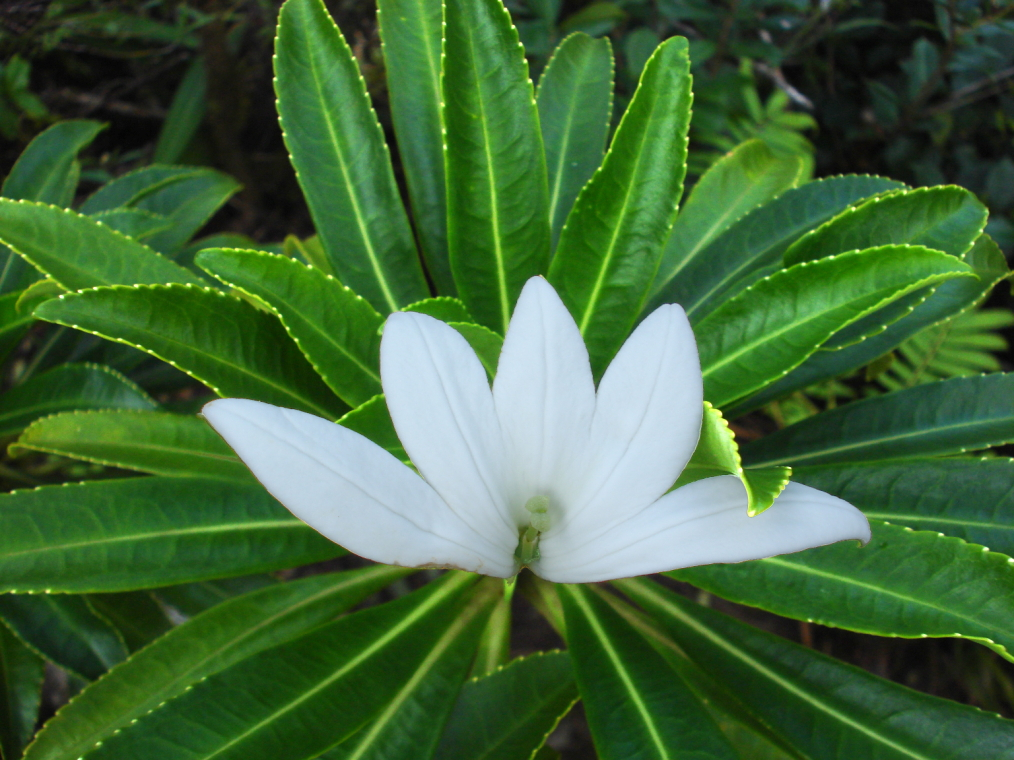 Tiare Apetahi Apetahia raiateensis, mount Temehani, Raiatea, French Polynesia (october 2008).